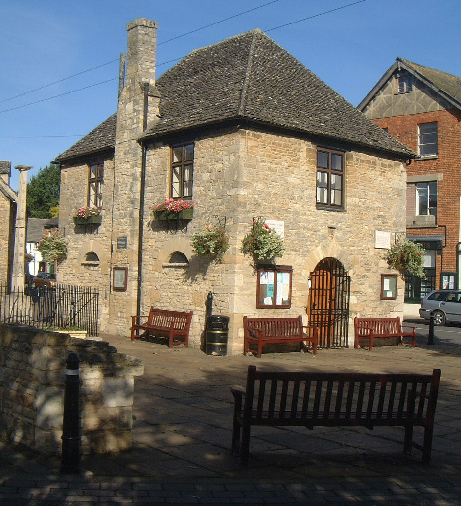 The Bartholomew Room, Eynsham, Oxfordshire, England, seen from the southeast. On the left is the Mediæval market cross.